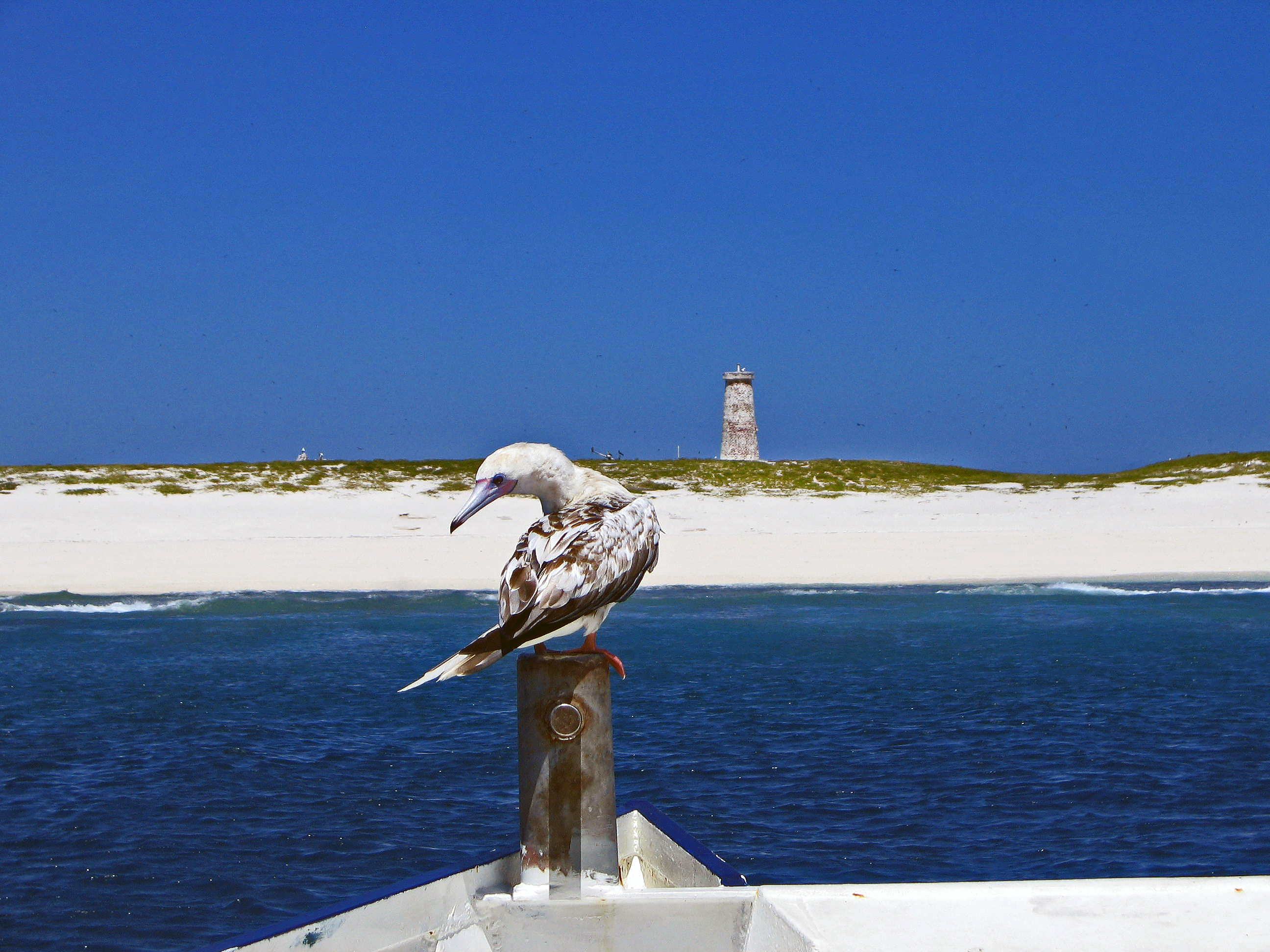 Baker Island, coastline with day beacon. A red-footed booby Sula sula in foreground